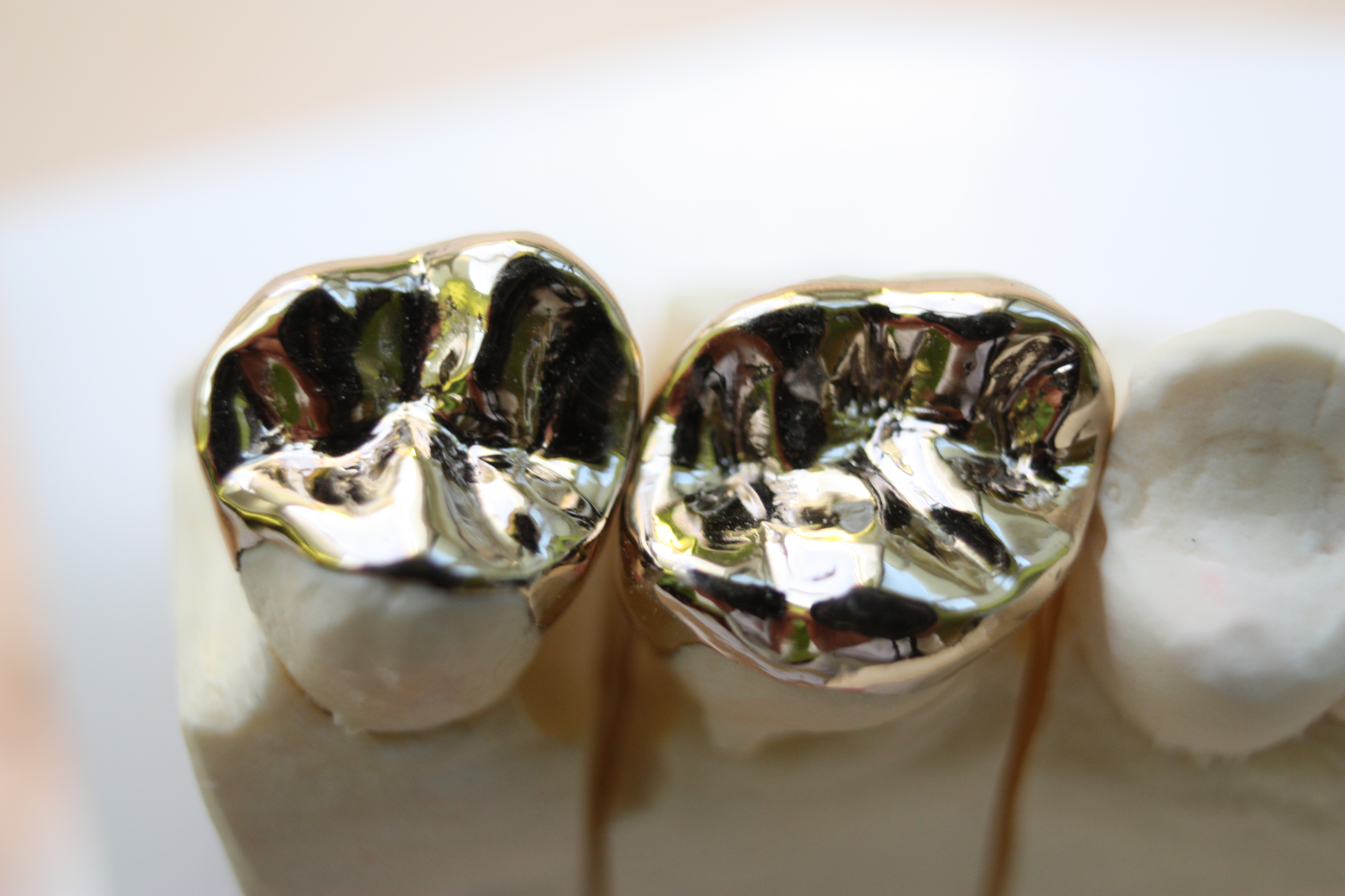 Dental crown, Teilkrone, Prämolar